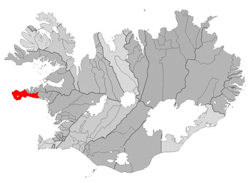 Based on Municipalities of Iceland.png.